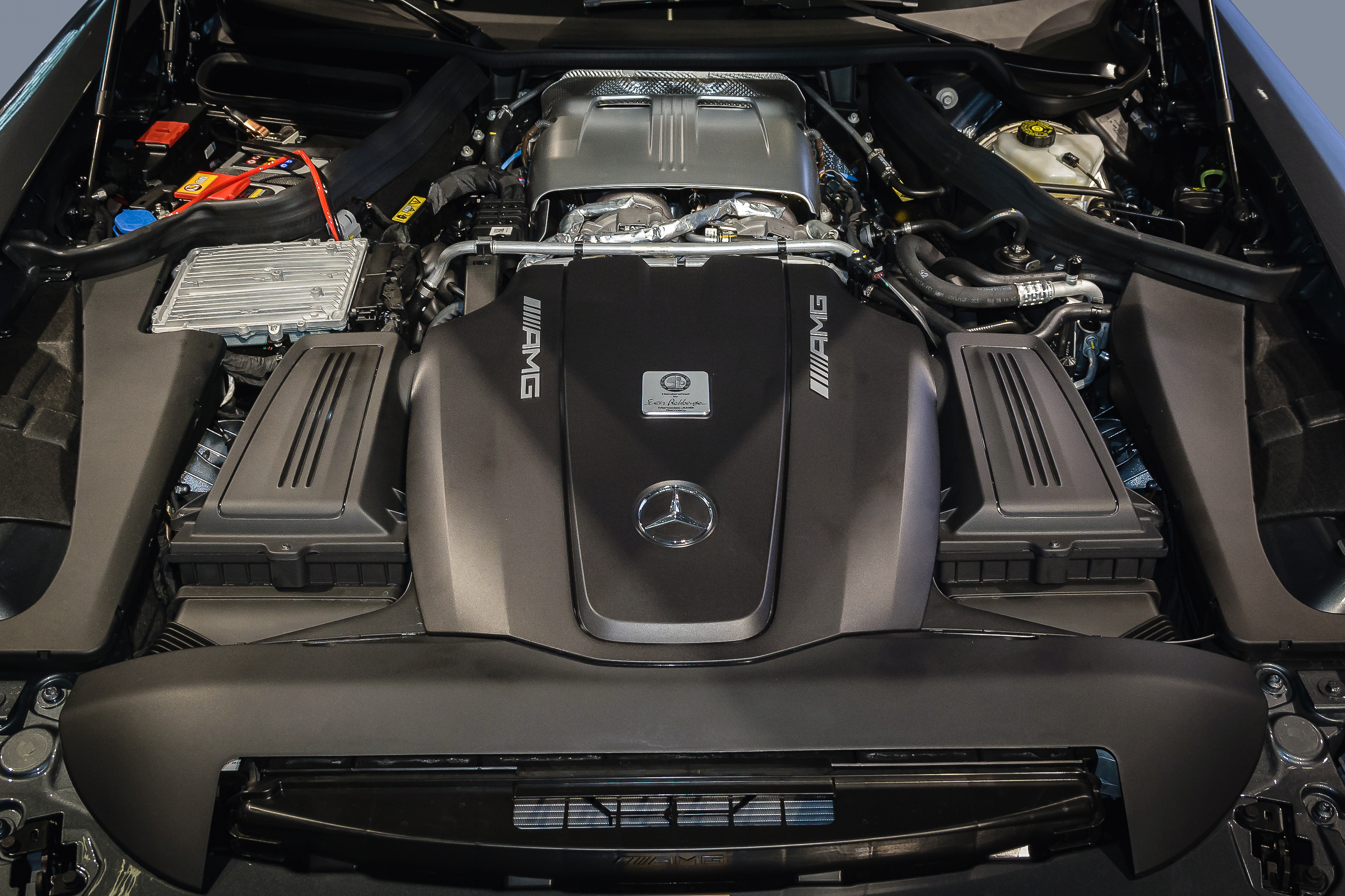 Motor 178 im Typ 190